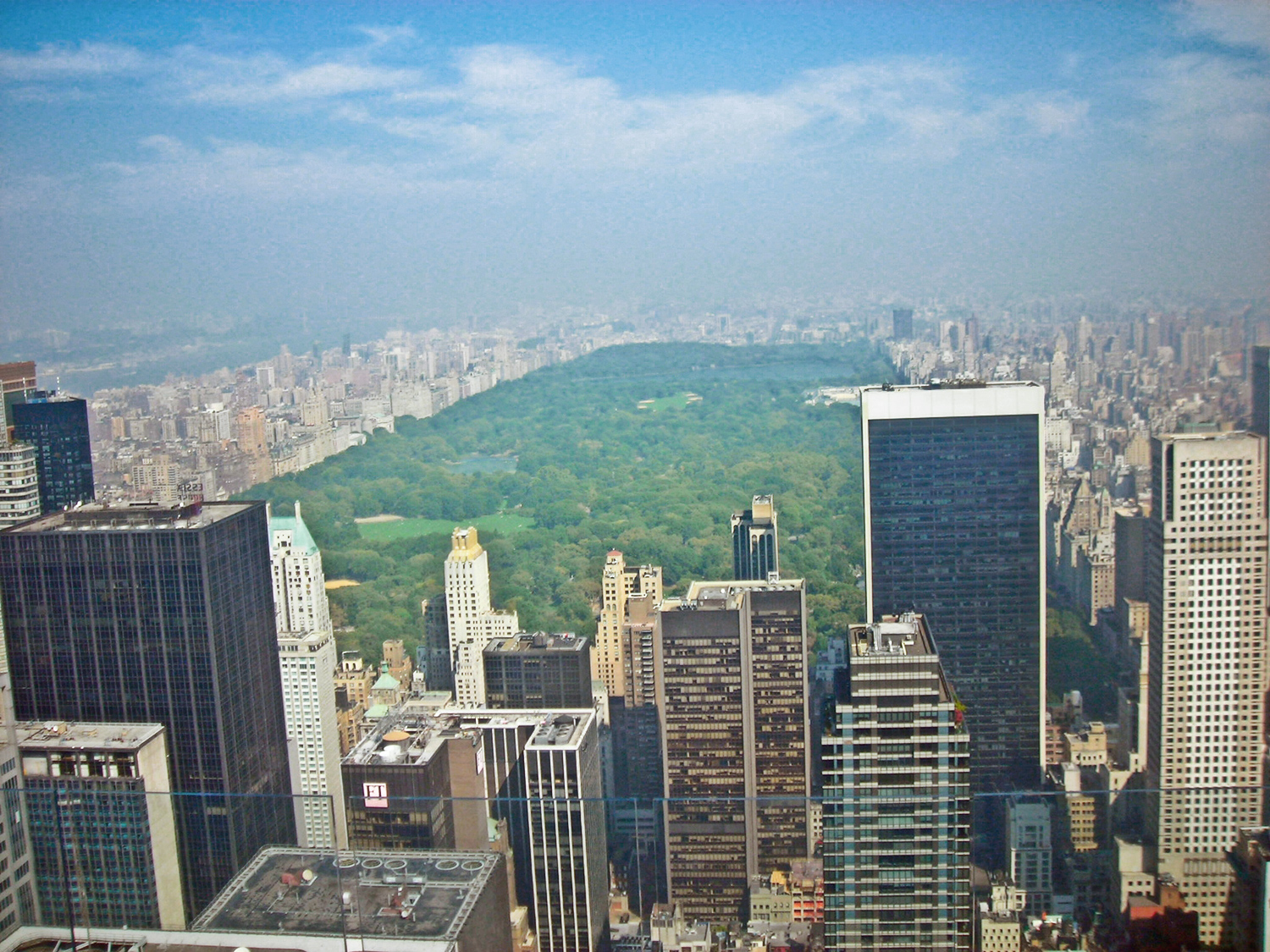 Central Park from the top of Rockefeller Tower